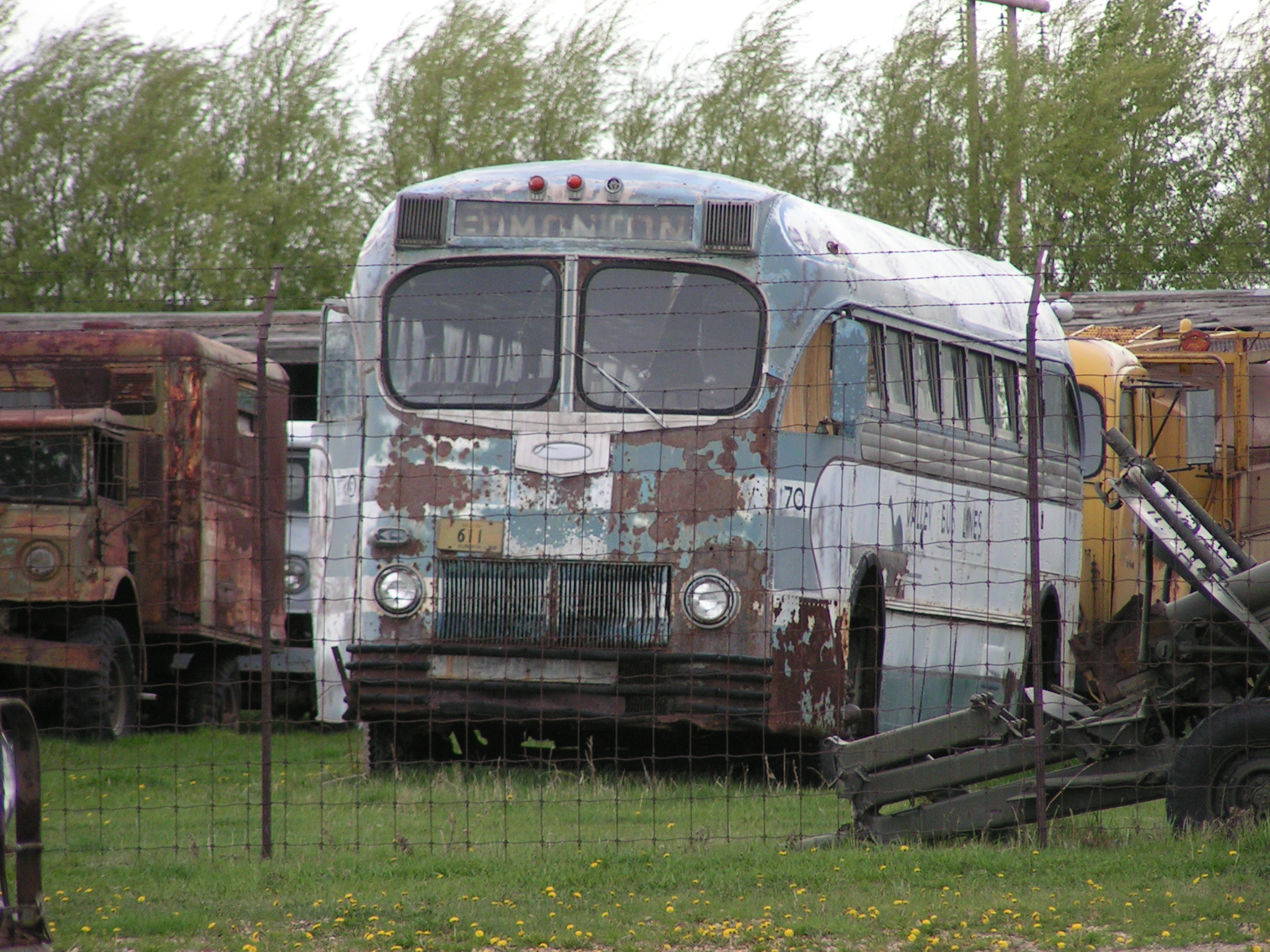 Yellow Coach model 743 Bus